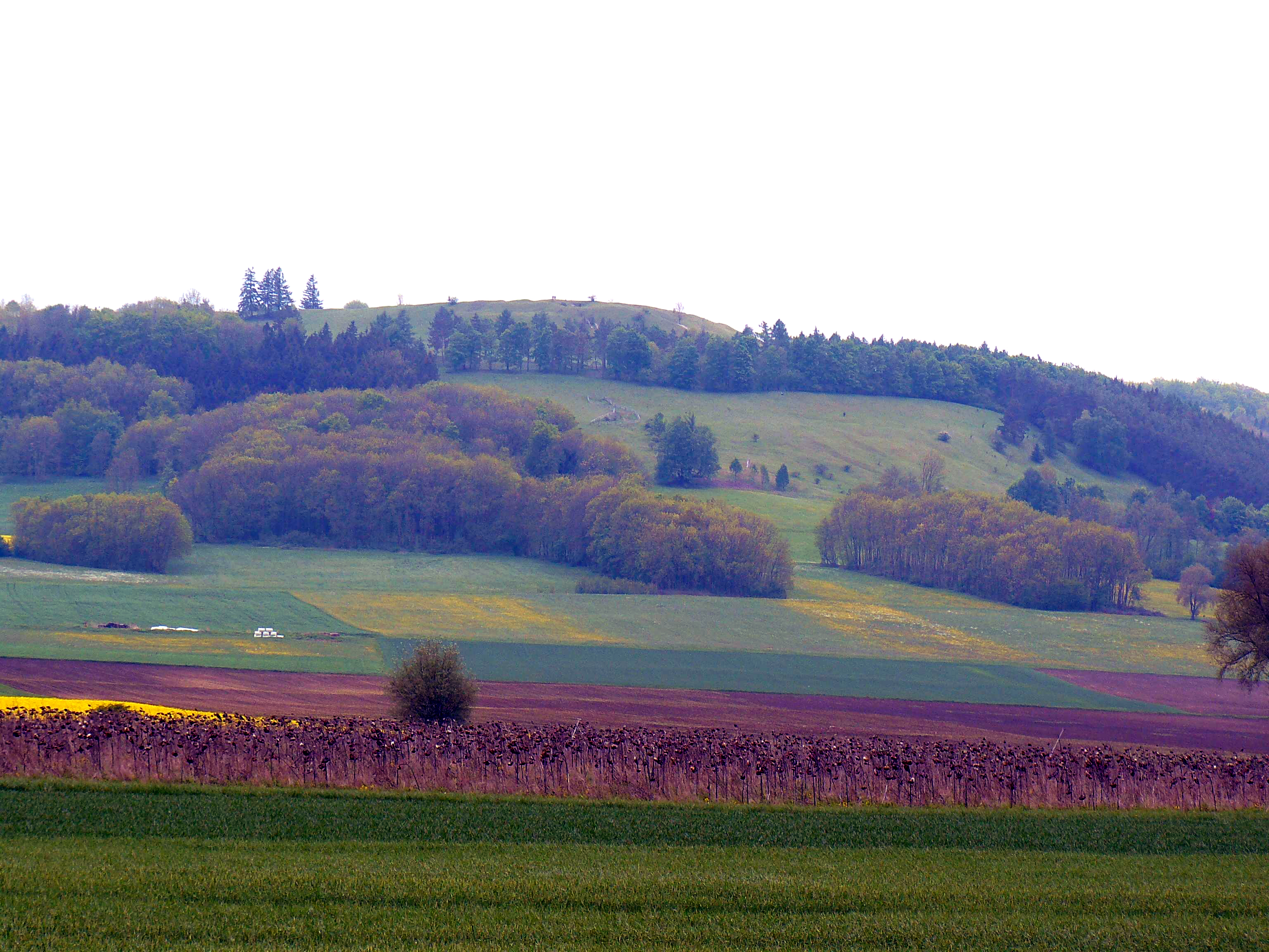 Gelbe Bürg from North, Mittelfranken, Germany